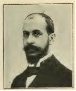 Portrait de Auguste François-Marie Gorguet (1862-1927), prise vers 1896.